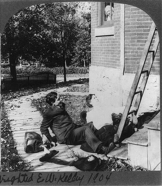 "The elopement - a hasty descent", a photograph. Once half of a stereo viewing card.